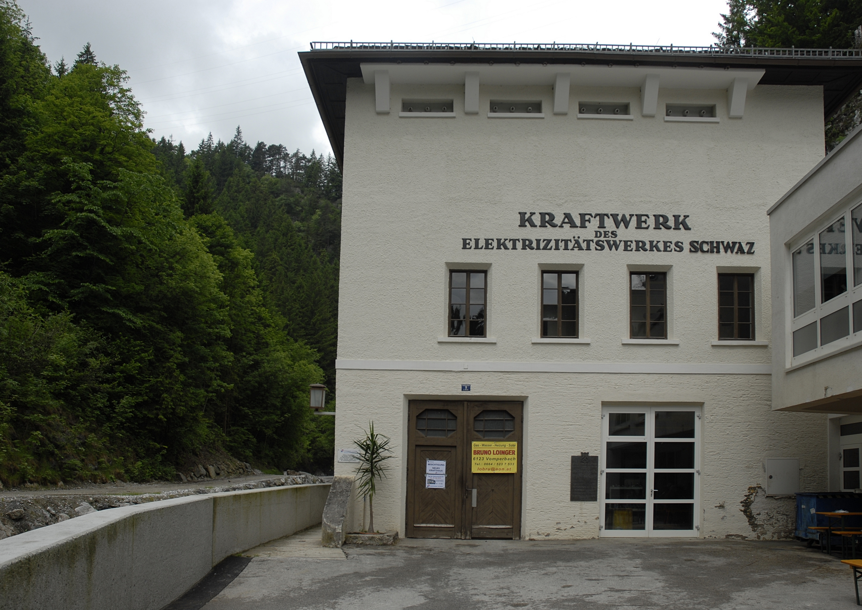 Hydroelectric power plant in the Vomper Loch, Tyrol